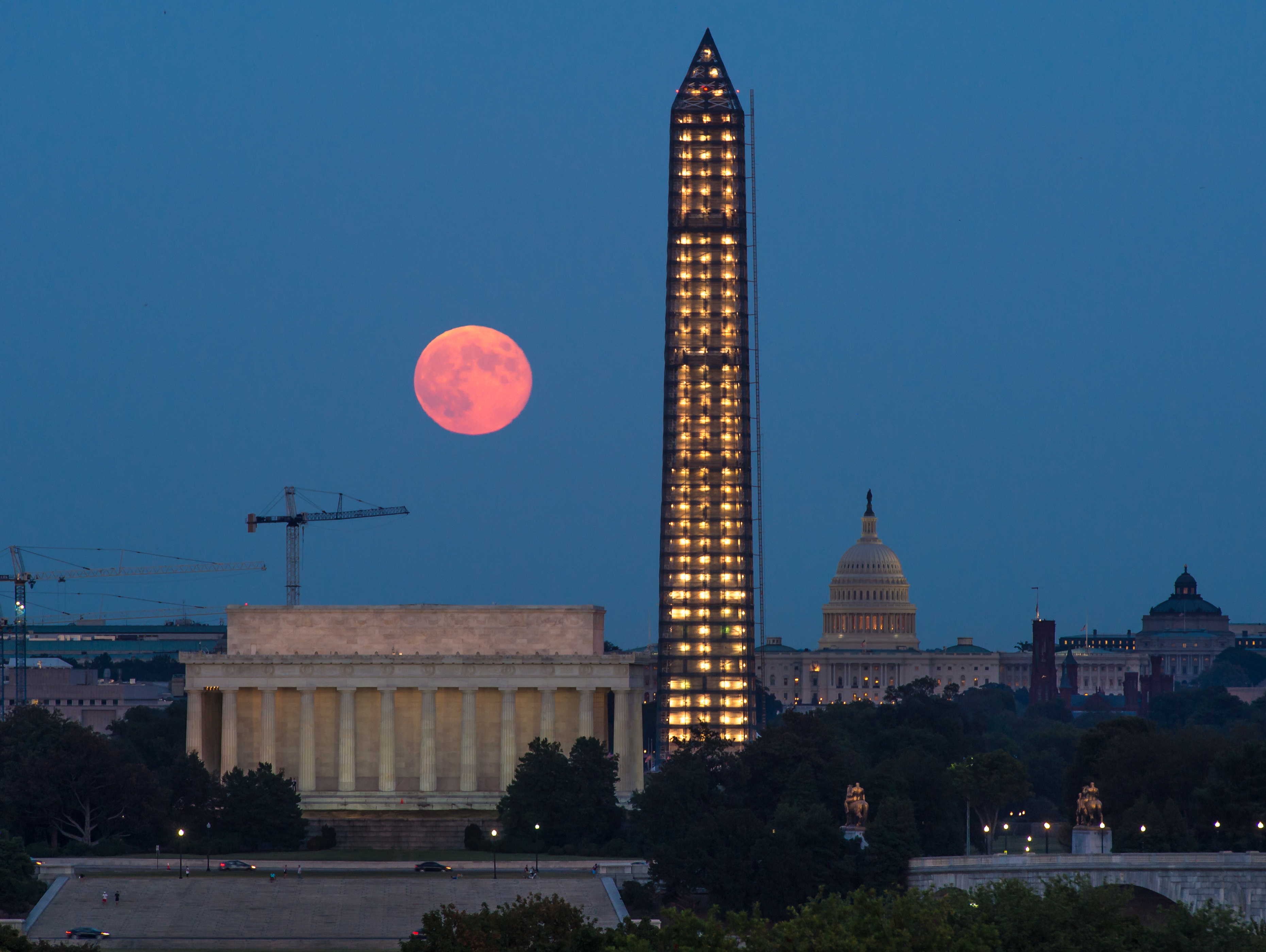 A full moon, known as a Harvest Moon, rises over Washington, Thursday, Sept. 19, 2013, in Washington.